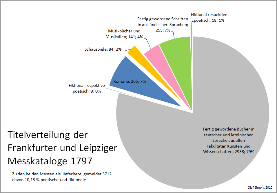 The distribution of titles advertised in the two Leipzig Term Catalogues that appeared in 1797